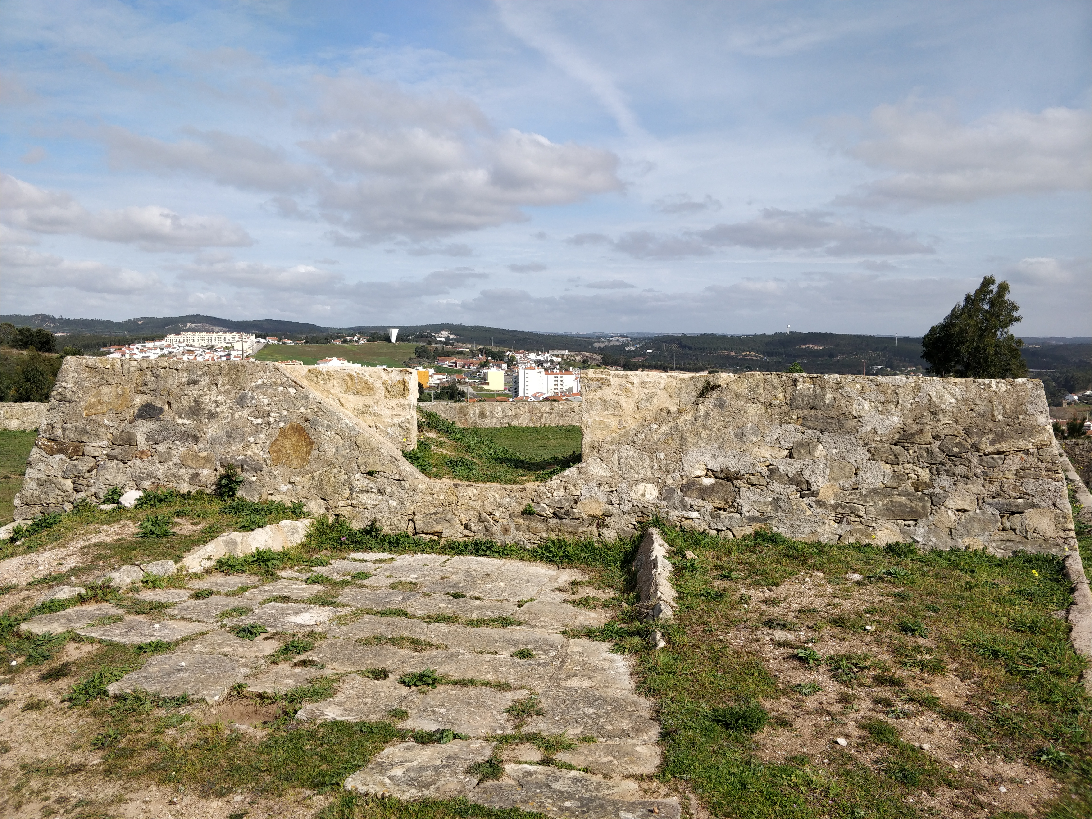 View of the Fort of São Vicente in Torres Vedras, Portugal. This was the first fort of the Lines of Torres Vedras to be started, in November 1809